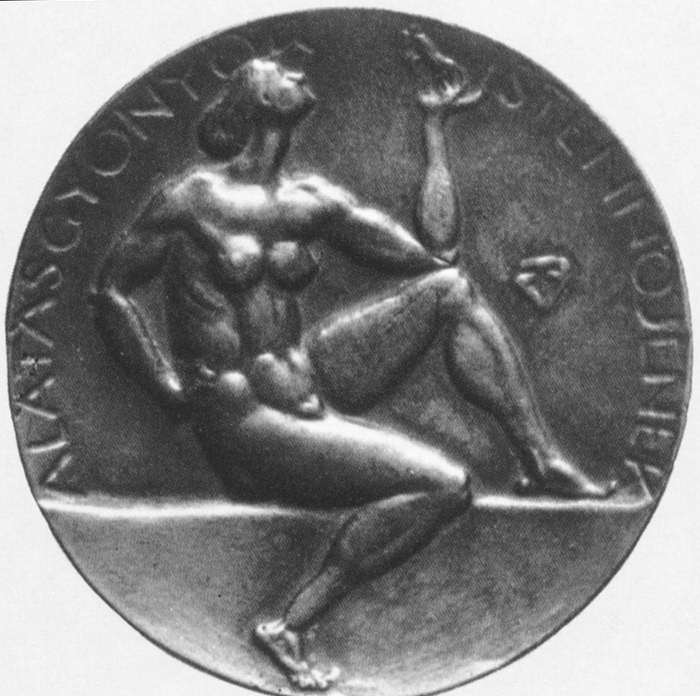 To the Goddes of Visual Delight